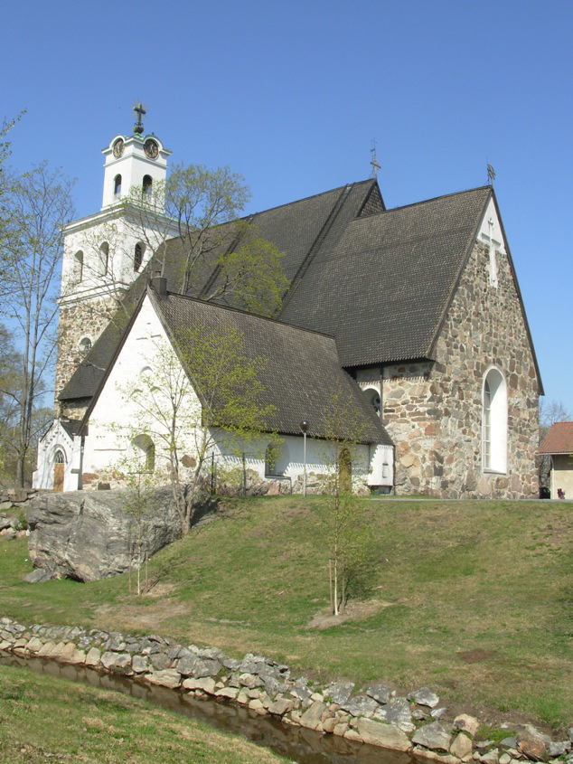 The Church of the Holy Cross in Rauma, Finland